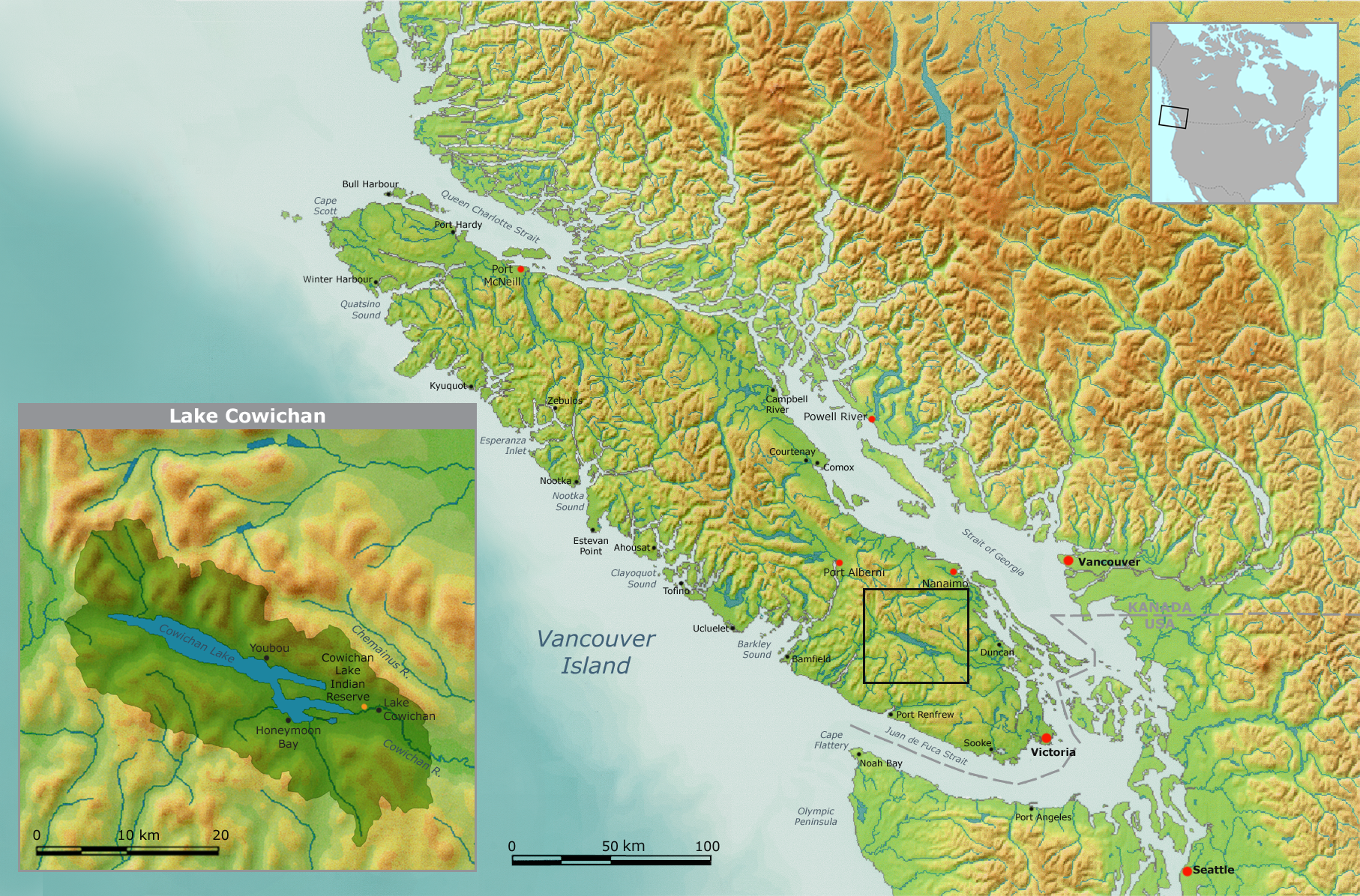 Map of traditional Lake Cowichan tribal territory.